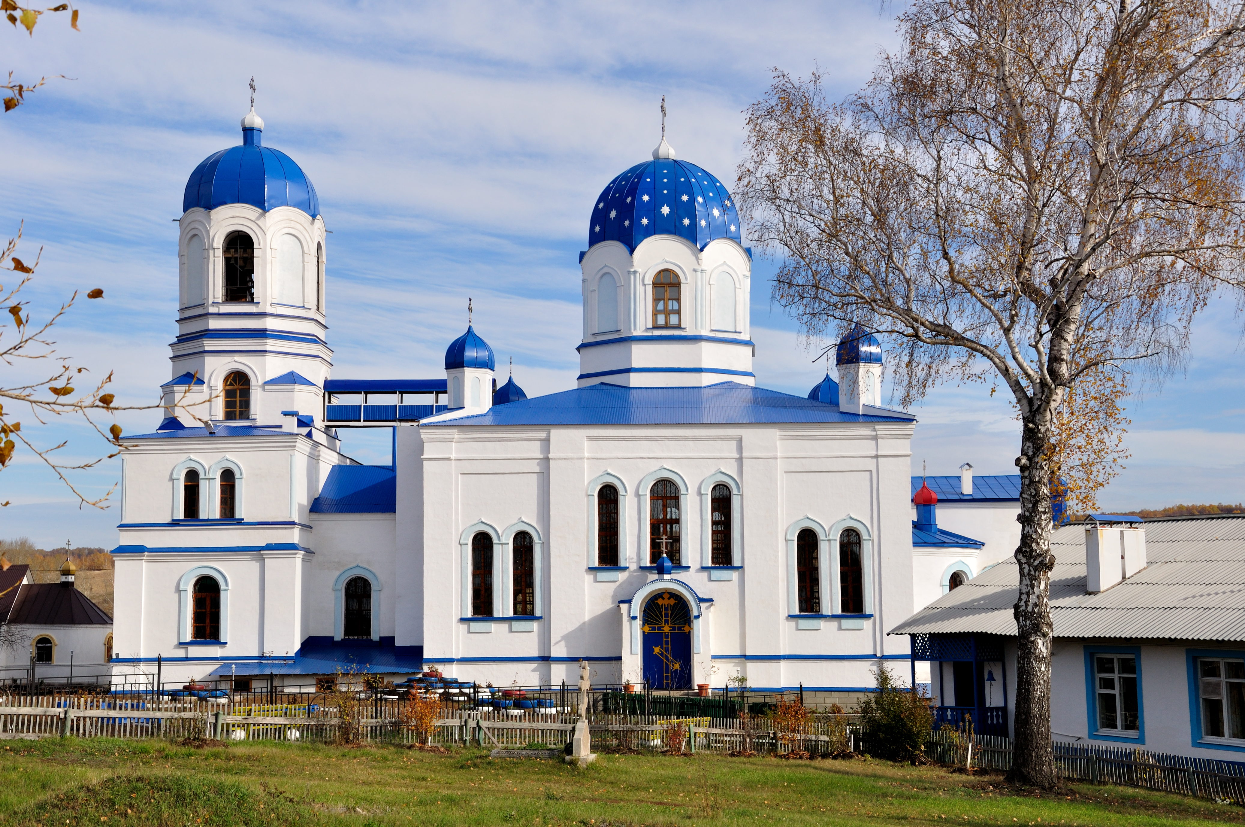 Pokrovsky monastery in Dedovo 4